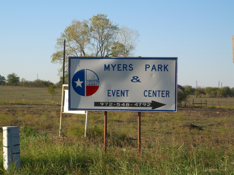 Myer's Park